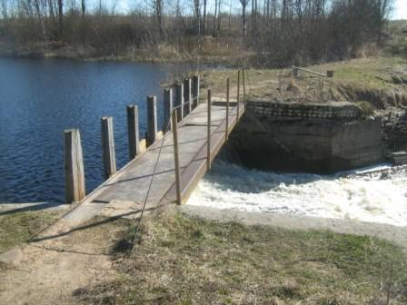 Bykovka river near Suchigoritsy (Tver region)